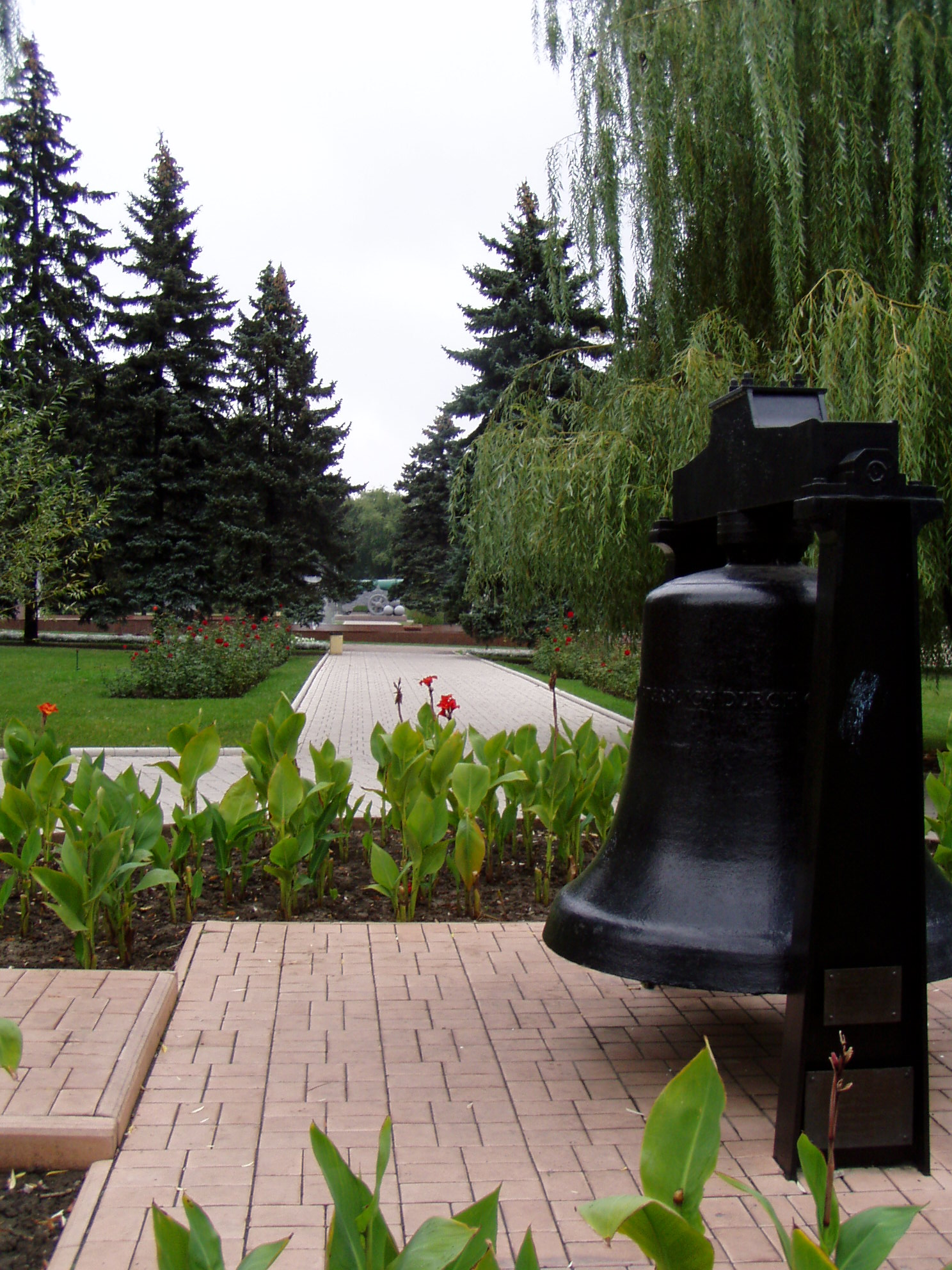 Bell of peace in Donetsk, donated by the partner city of Bochum